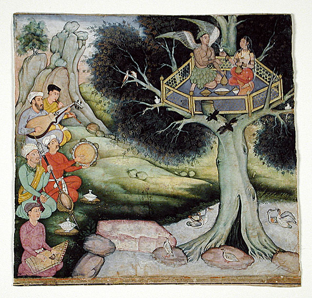 Pakistan, Lahore, Mughal Somaprabha and a Celestial Nymph Listening to Music, from a Kathasaritsagara, circa 1590 Painting; Watercolor, Opaque watercolor and gold on paper, 5 1/8 x 5 3/8 in. (13.02 x 13.65 cm) From the Nasli and Alice Heeramaneck Collection, Museum Associates Purchase (M.78.9.13) South and Southeast Asian Art Department.